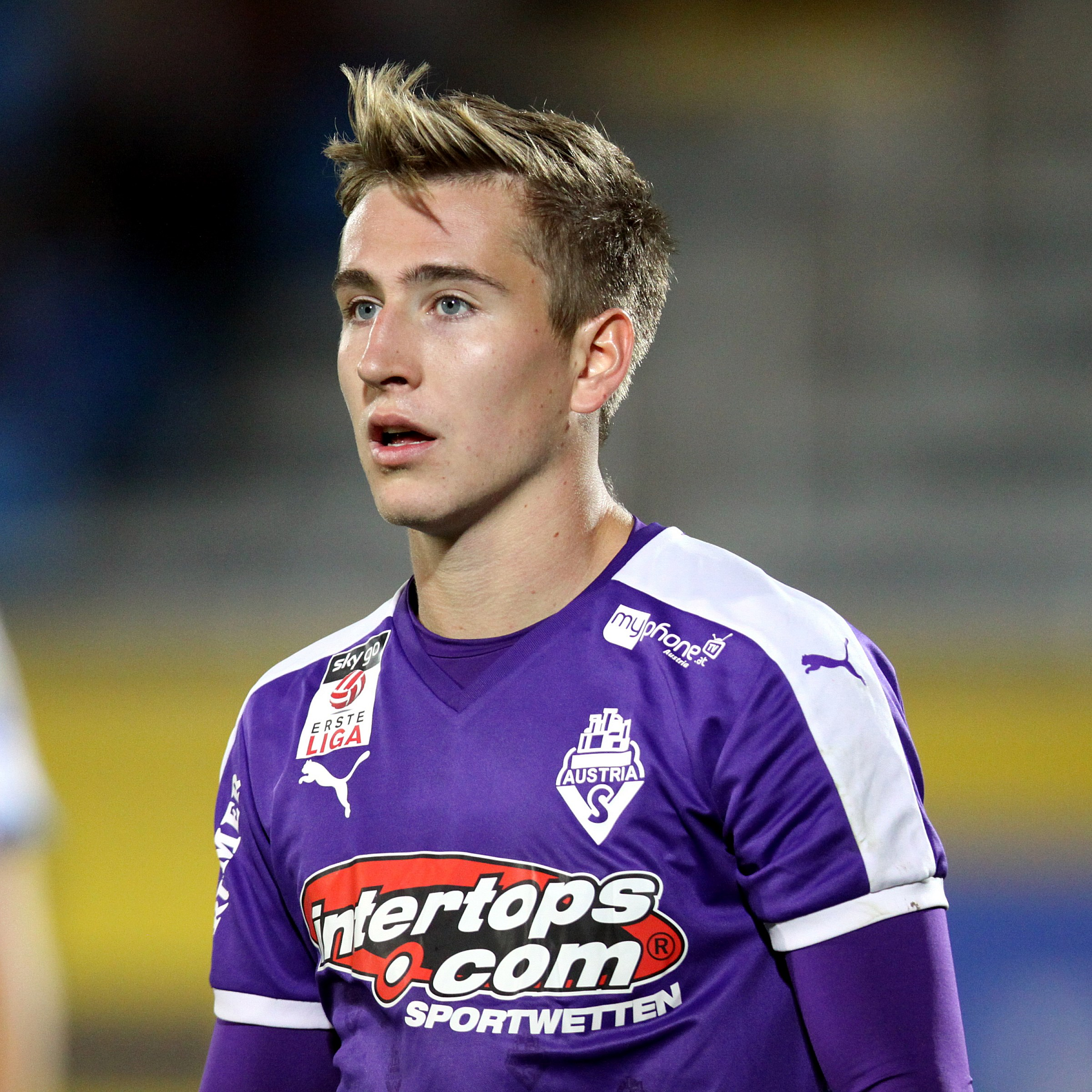 Match of the Erste Liga – SC Wiener Neustadt (blue/white shirts) vs. SV Austria Salzburg (purple shirts and black/white shirts) 2–0 (1–0) on 2015-10-02 in the Stadion in Wiener Neustadt – The photo shows Valentin Grubeck.